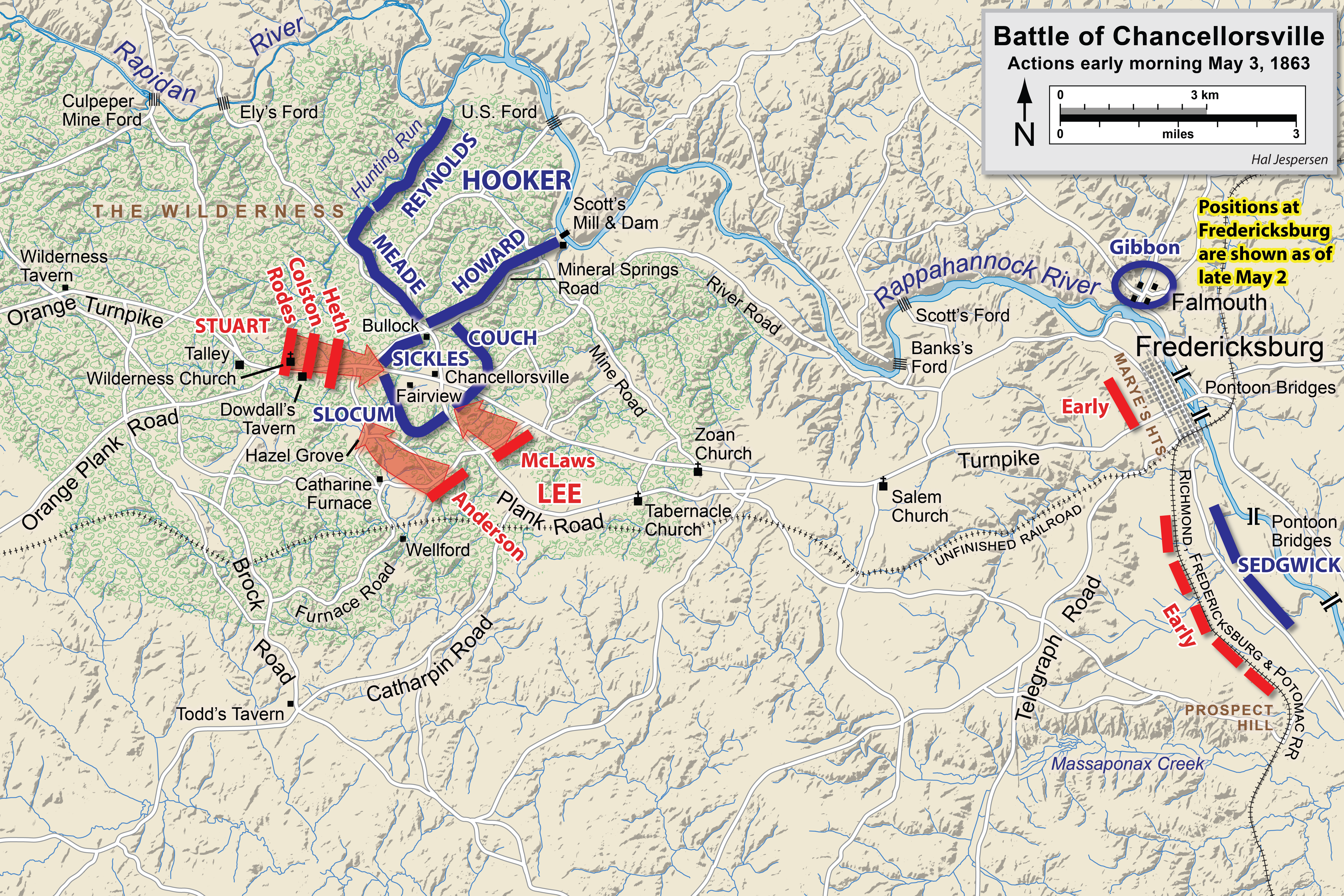 Map of a portion (May 3, early morning) of the battle of Chancellorsville of the American Civil War. This map partially replaces the map entitled Chancellorsville May3.png. Drawn in Adobe Illustrator CS6 by Hal Jespersen. Graphic source file is available at Attribution: Map by Hal Jespersen